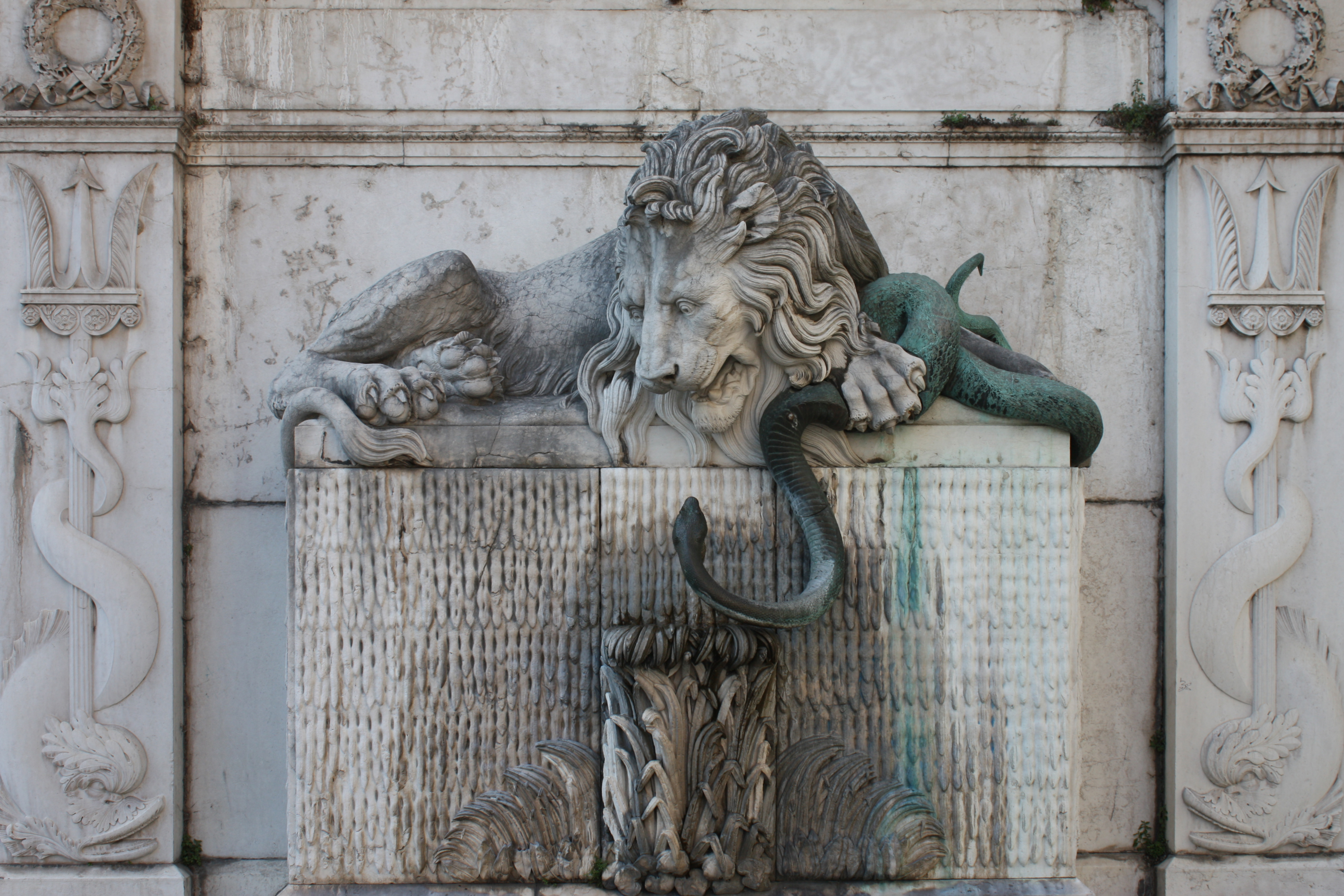 The Fontaine au lion in Grenoble, near the bridge Saint-Laurent. The lion symbolizes the city, defeating the Isère river, represented by a snake. Sculpture by Victor Sappey, 1843.